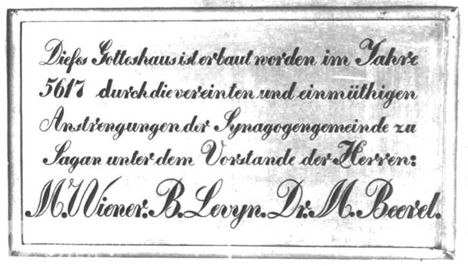 Synagogue of Sagan (now Żagań), built in 1857 from a bastion, and destroyed by the nazis during Kristal Nacht (9 to 10 nov 1938):thanking plate